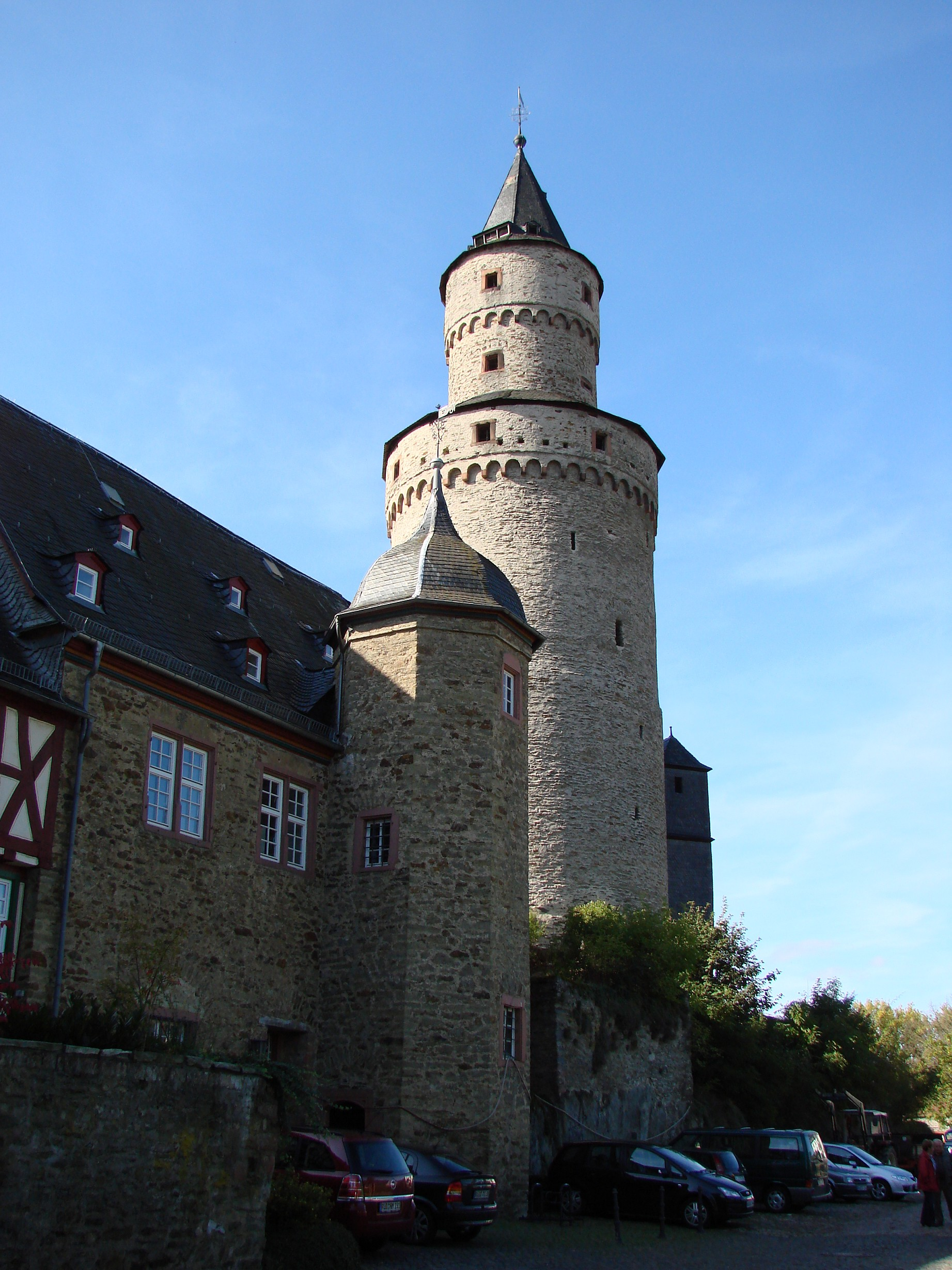 Idstein, Germany, medieval castle with Hexenturm (witch tower)